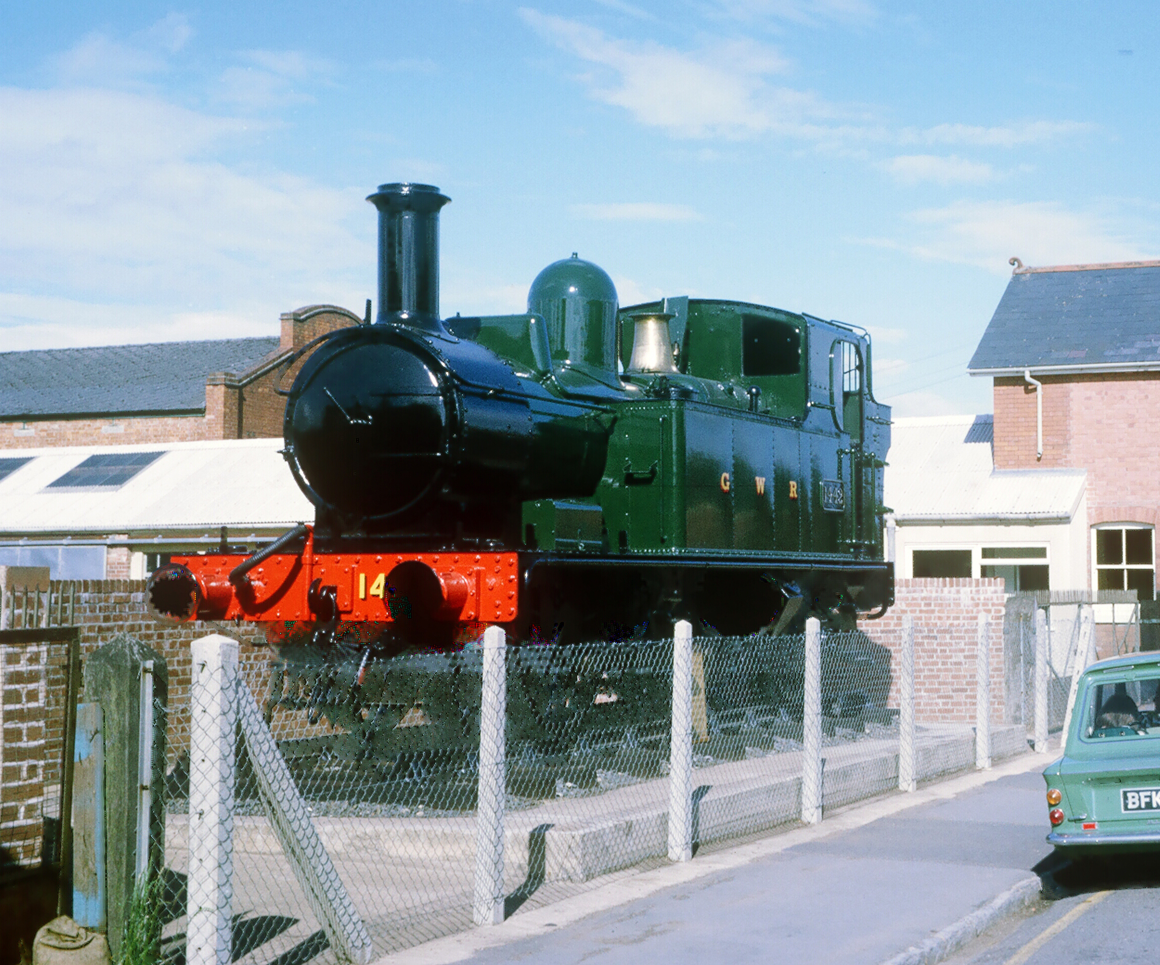 "Tivvy Bumper" locomotive 1442 in its original resting-place on Blundell's Road, Tiverton, photographed in 1968